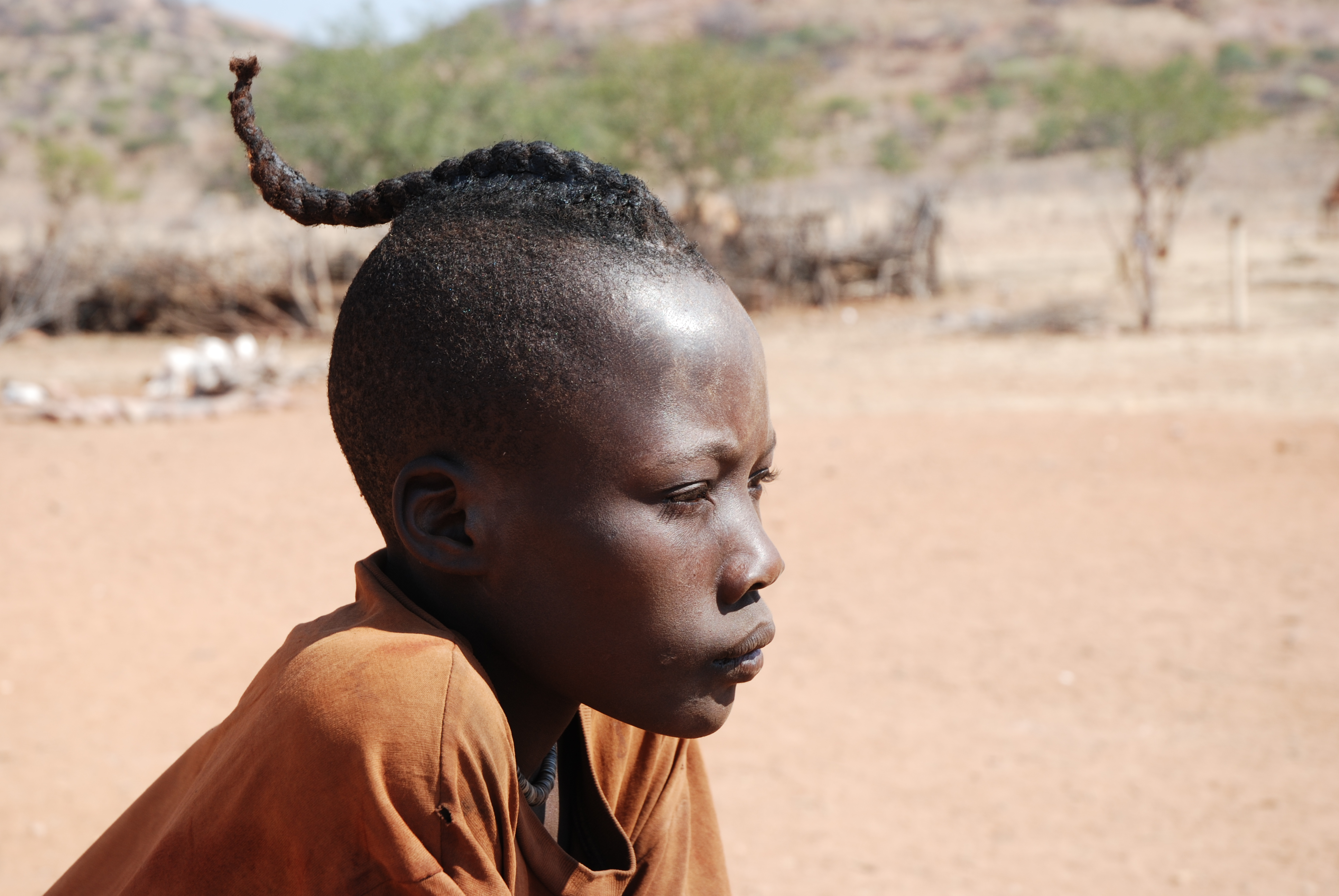 Himba Boy